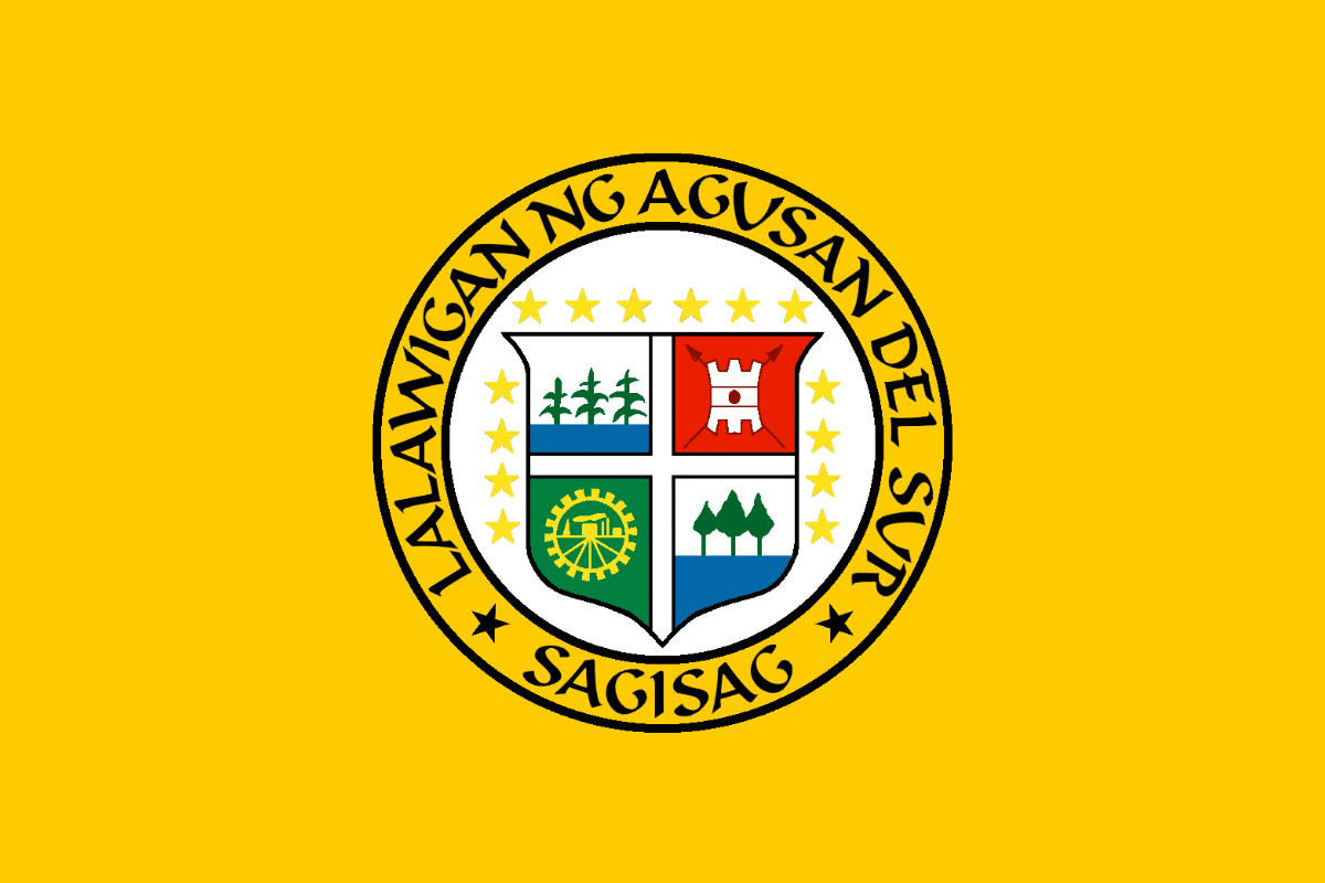 Provincial Flag of Agusan del Sur